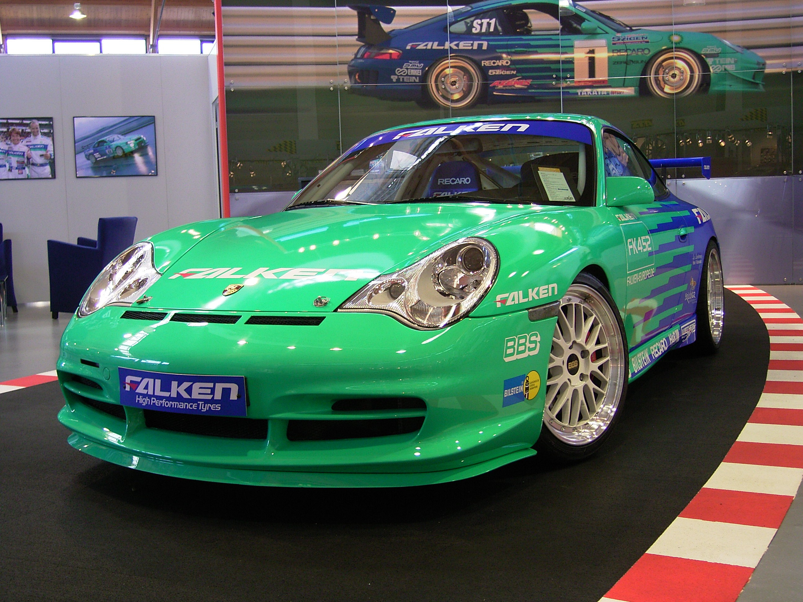 Porsche 996